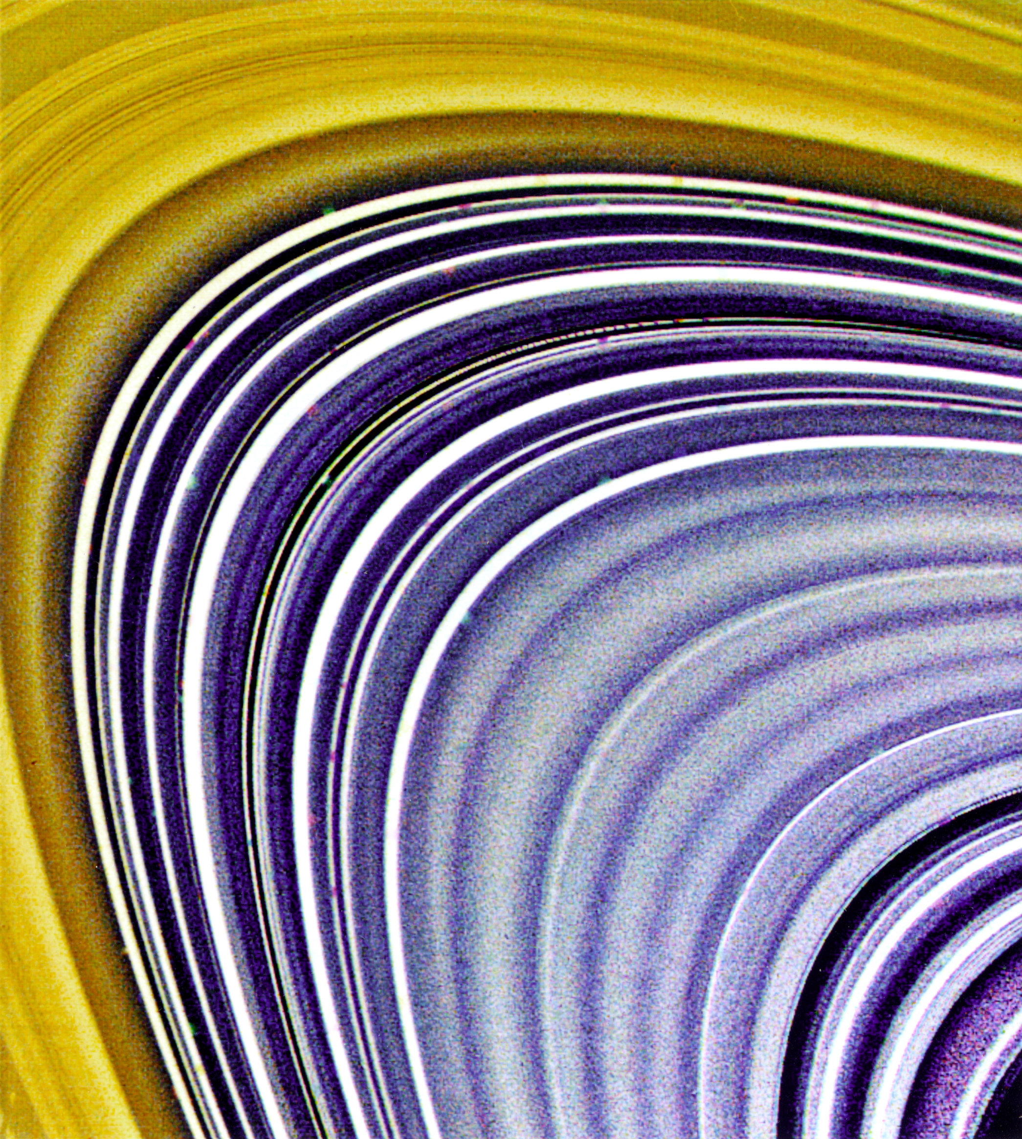 This Voyager 2 view, focusing on Saturn's C-ring (and to a lesser extent, the B-ring at top and left) was compiled from three separate images taken through ultraviolet, clear and green filters. On August 23, 1981, when it acquired these frames, Voyager 2 was 2.7 million kilometers (1.7 million miles) from the planet. In general, C-ring material is very bland and gray, the color of dirty ice. Color differences between this ring and the B-ring indicate differing surface compositions for the material composing these complex structures. More than 60 bright and dark ringlets are evident here; the small, bland squares are caused by the removal of reseau (reference) marks during processing.